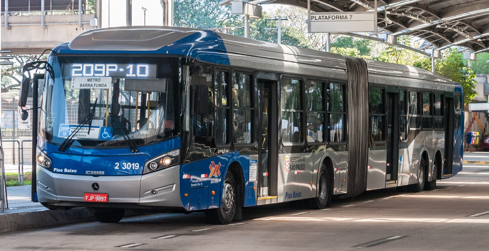 Caio Millennium BRT super articulated bus in São Paulo, Brazil.